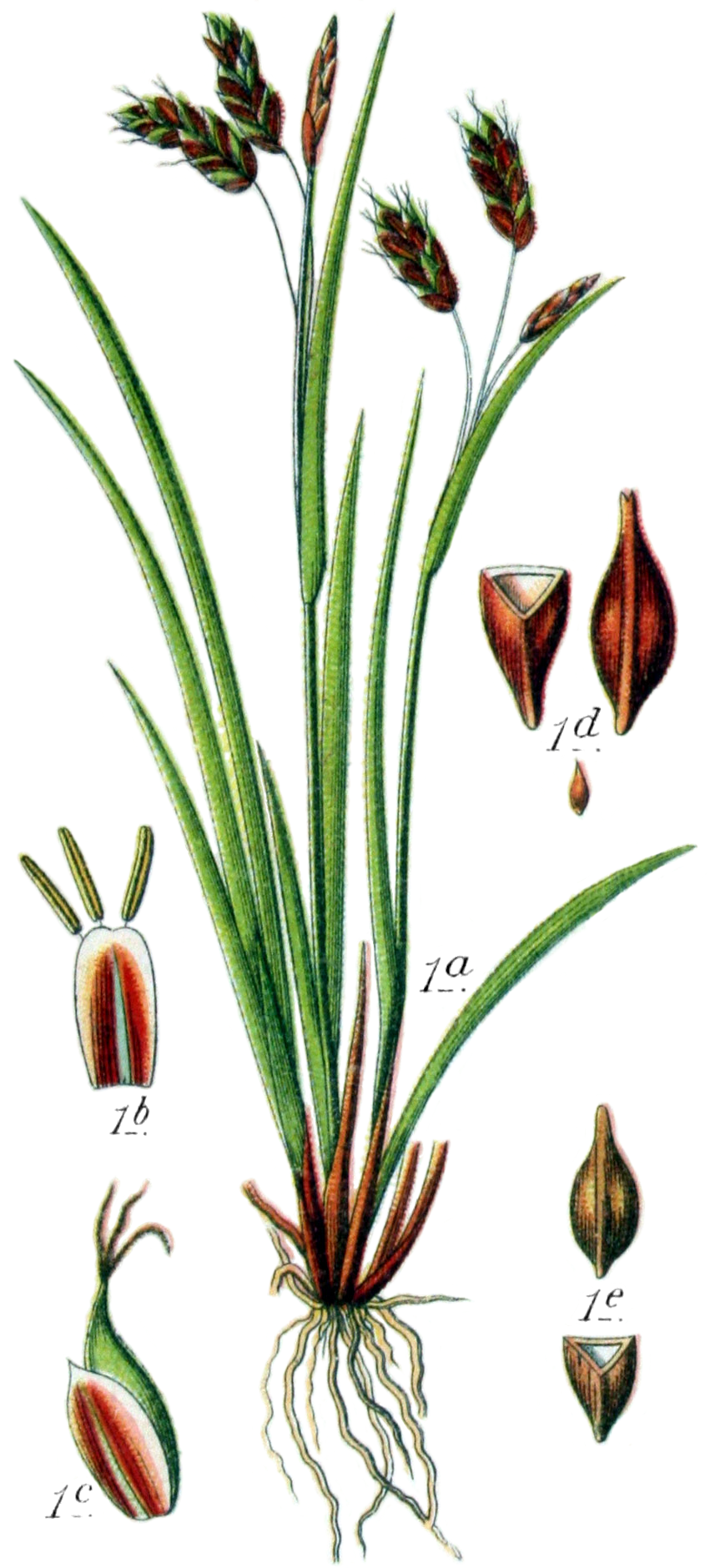 Carex cappilaris